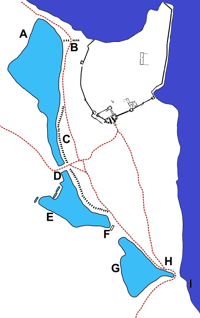 Dunstanburgh Castle environ map; reuses the castle diagram from "Dunstanburgh Castle", Dept of the Environment, 1955, London, Her Majesty's Stationery Office, by C. H. Hunter Blair and H. L. Honeyman, on behalf of the Department of the Environment.